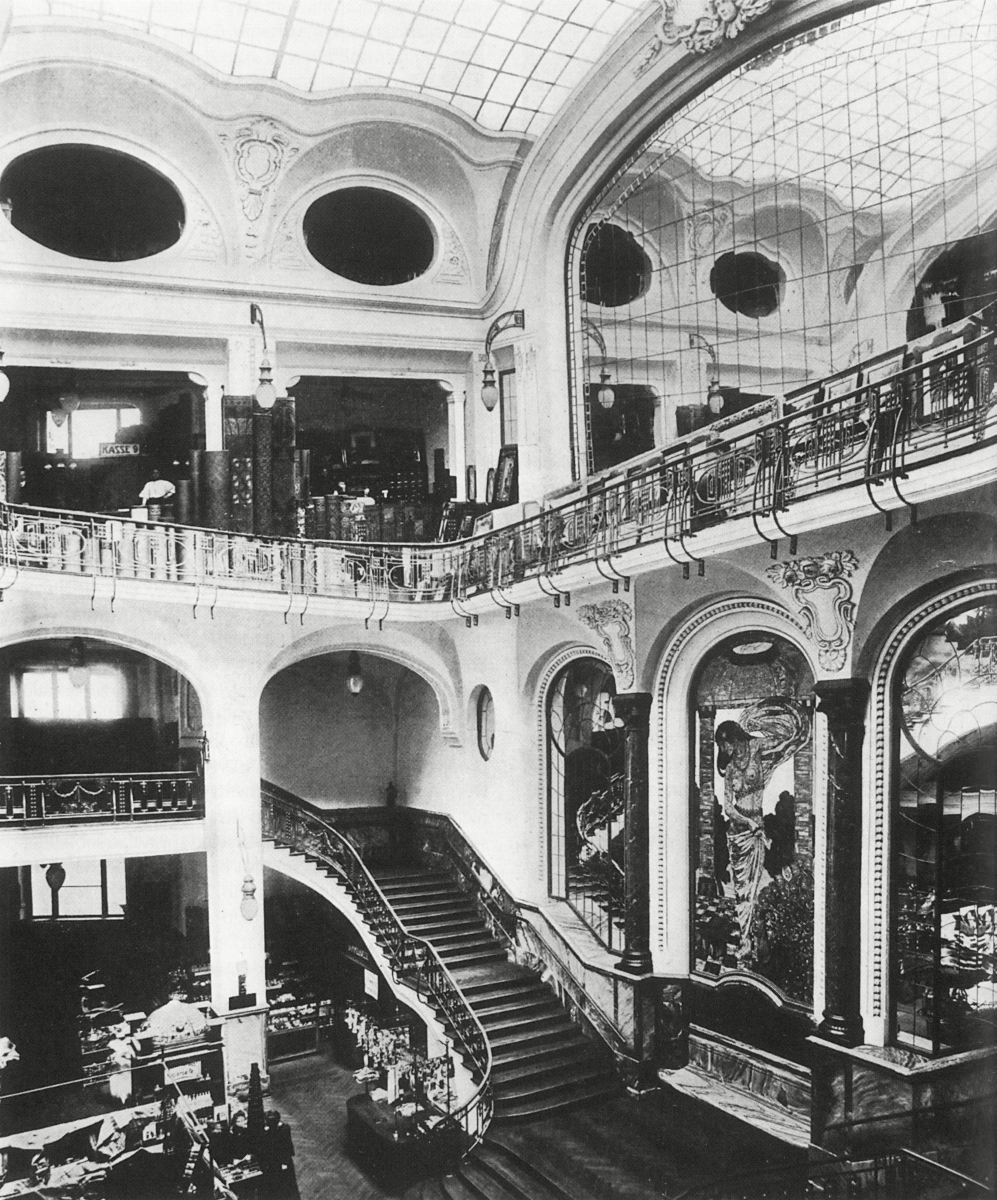 t